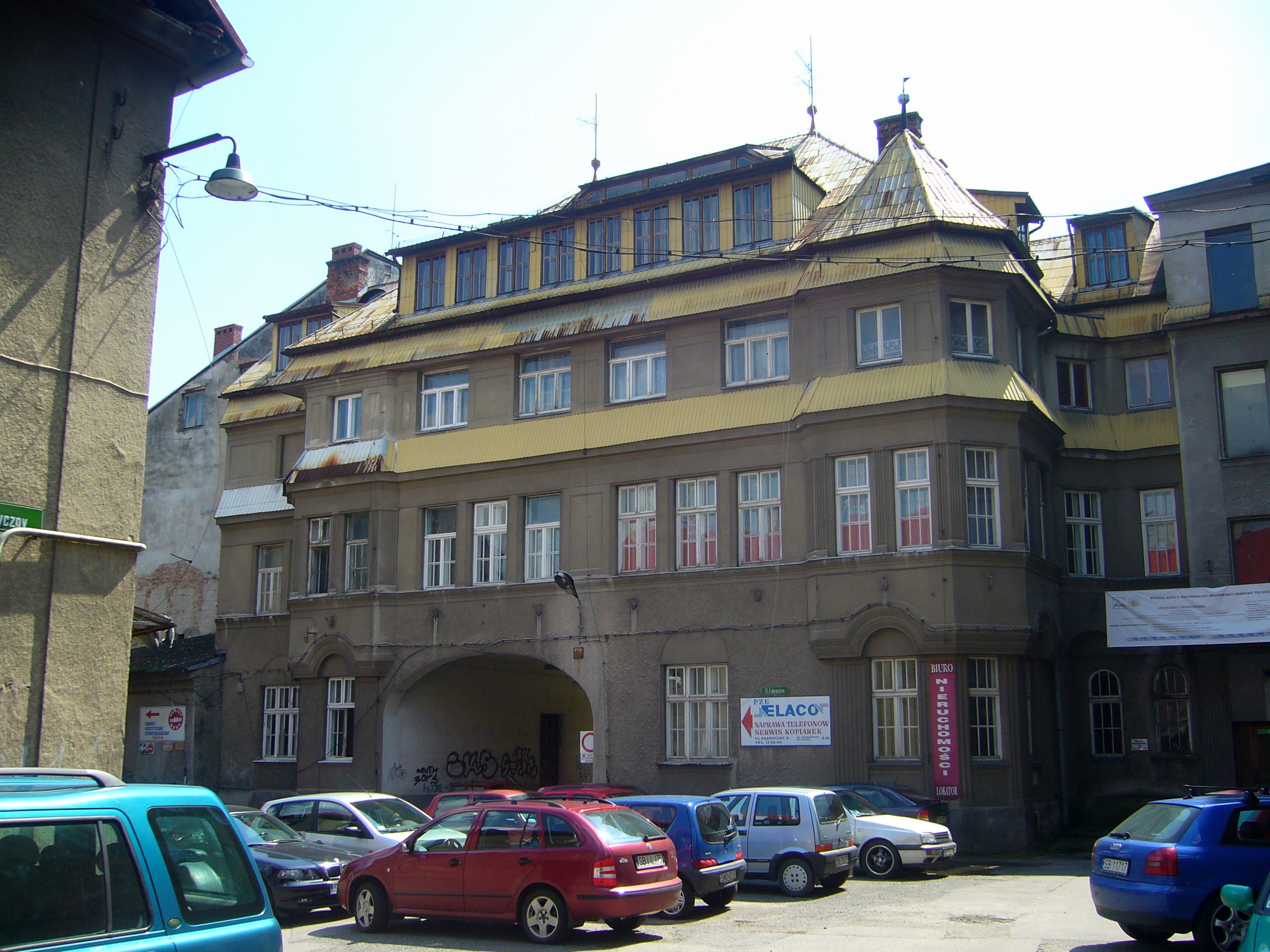 Bielsko-Biała, University of Bielsko-Biała, Faculty of Textile Engineering and Environmental Protection.